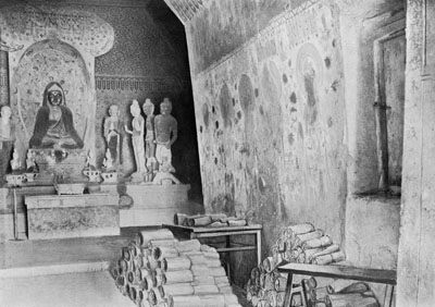 Diamond Sutra. Cave 17, Dunhuang, ink on paper